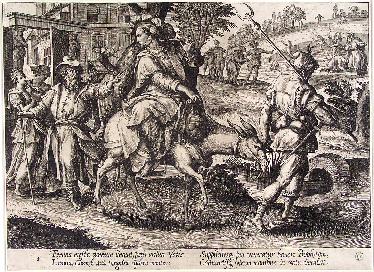 The Shunammite Travelling to Elisa. engraving. Height: 19.2 cm (7.5 ″); Width: 28.4 cm (11.1 ″) dimensions QS:P2048,19.2U174728;P2049,28.4U174728. Rotterdam, Museum Boijmans Van Beuningen (BdH 15293 (PK)).